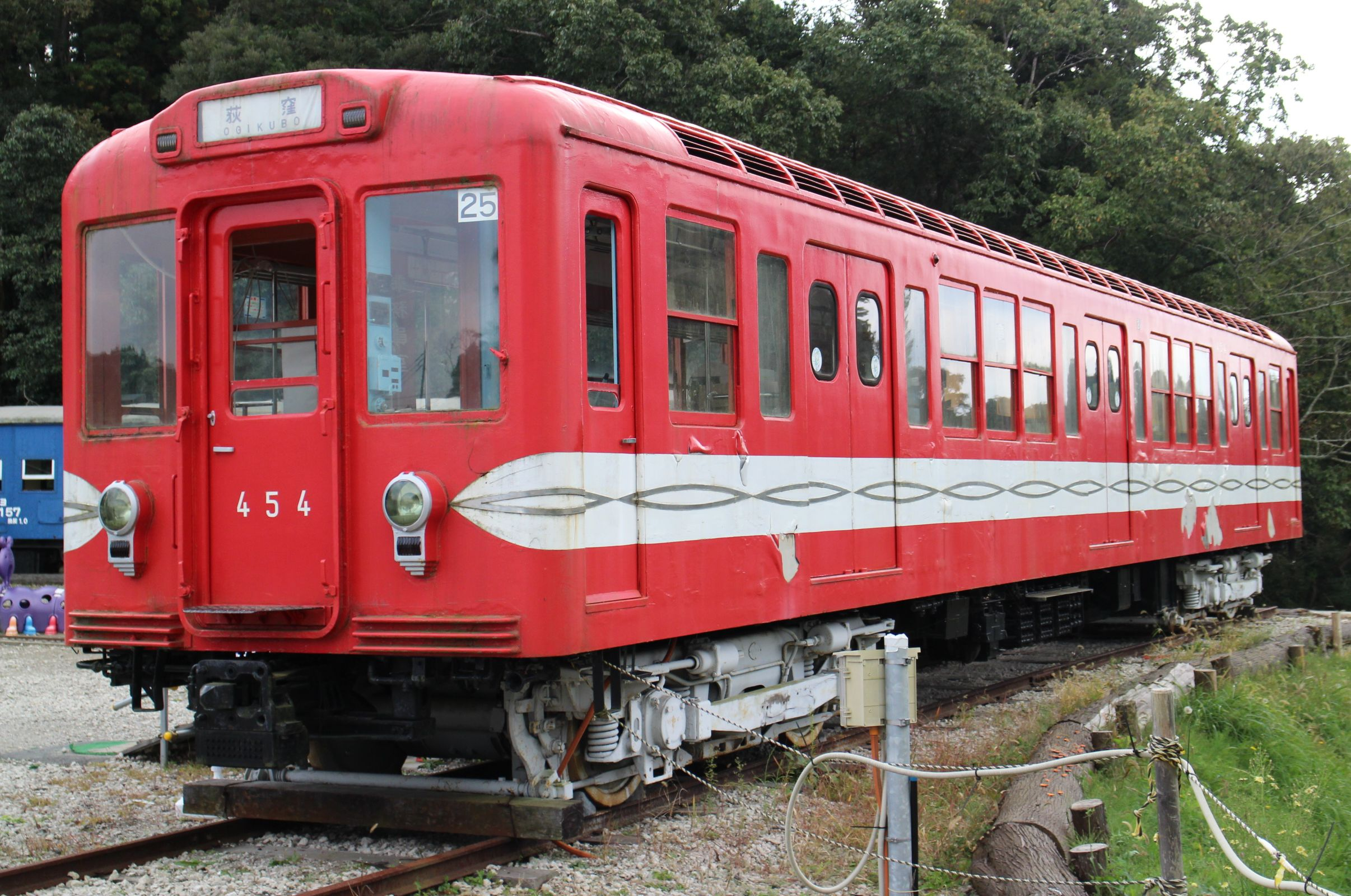 Former TRTA Marunouchi Line 500 series EMU car 454 at Isumi Poppo-no-Oka in Chiba Prefecture, Japan